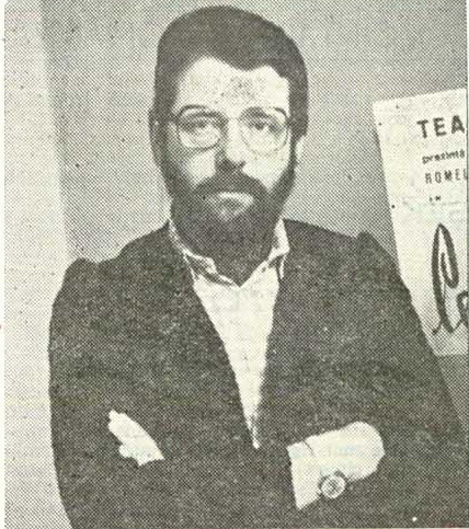 Romanian playwright Radu F. Alexandru